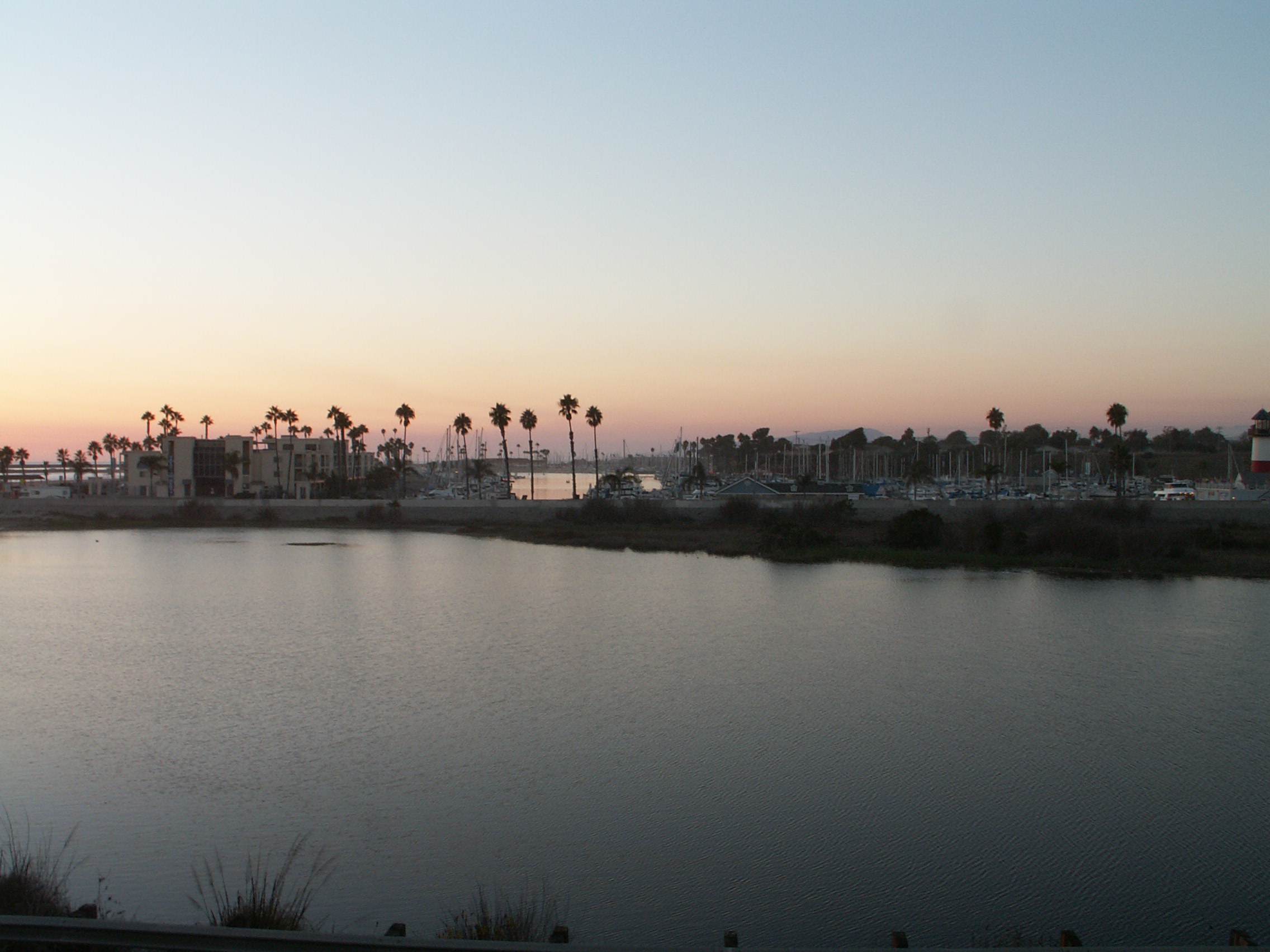 Oceanside Marina in Oceanside, San Diego County